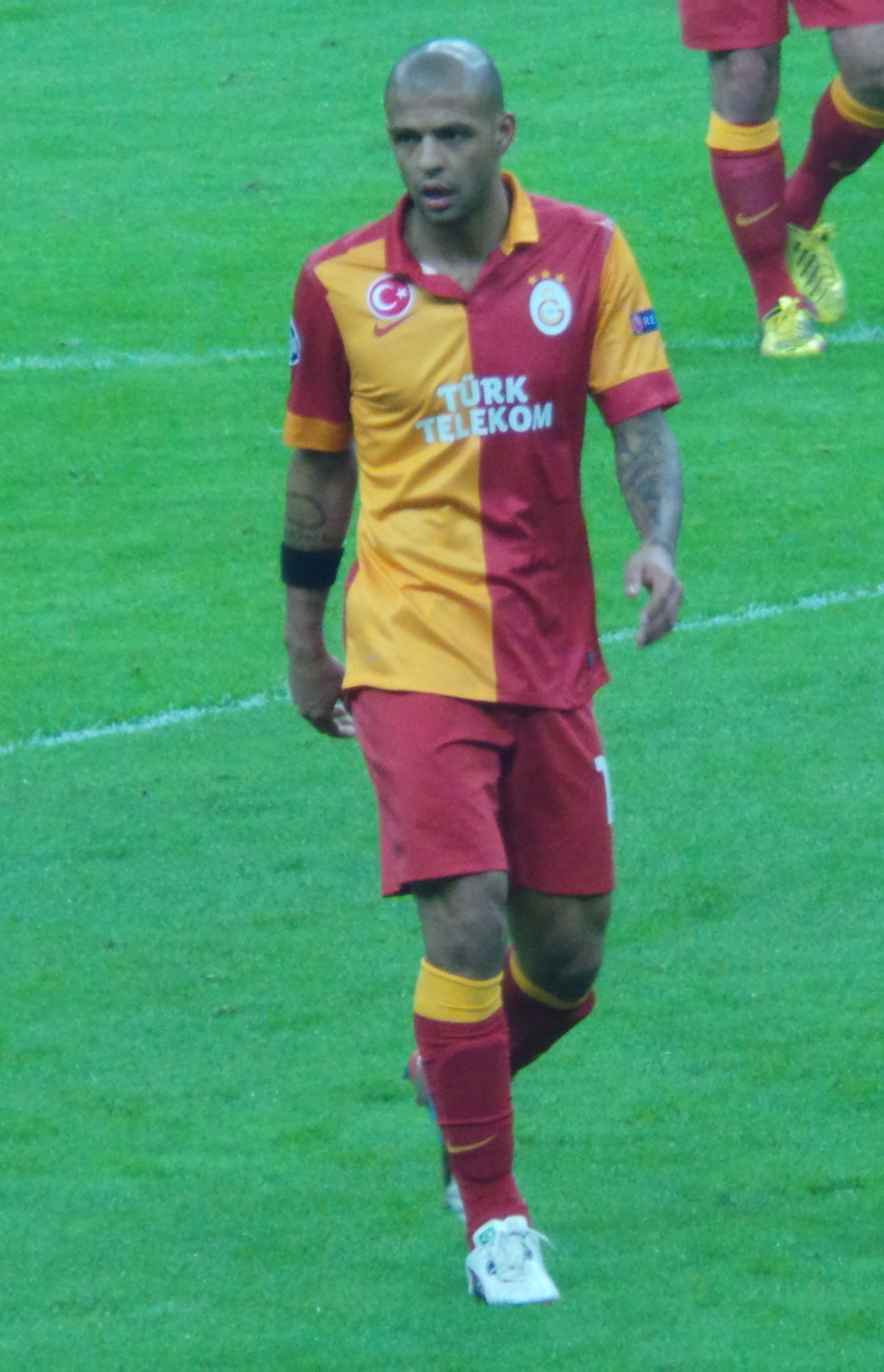 Melo vs Real MAdrid